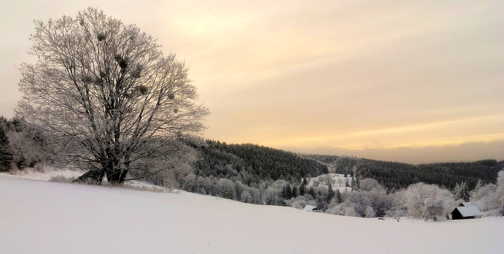 Šehrovně (Šerhovny) - one part of Hřívová in Valašská Bystřice.